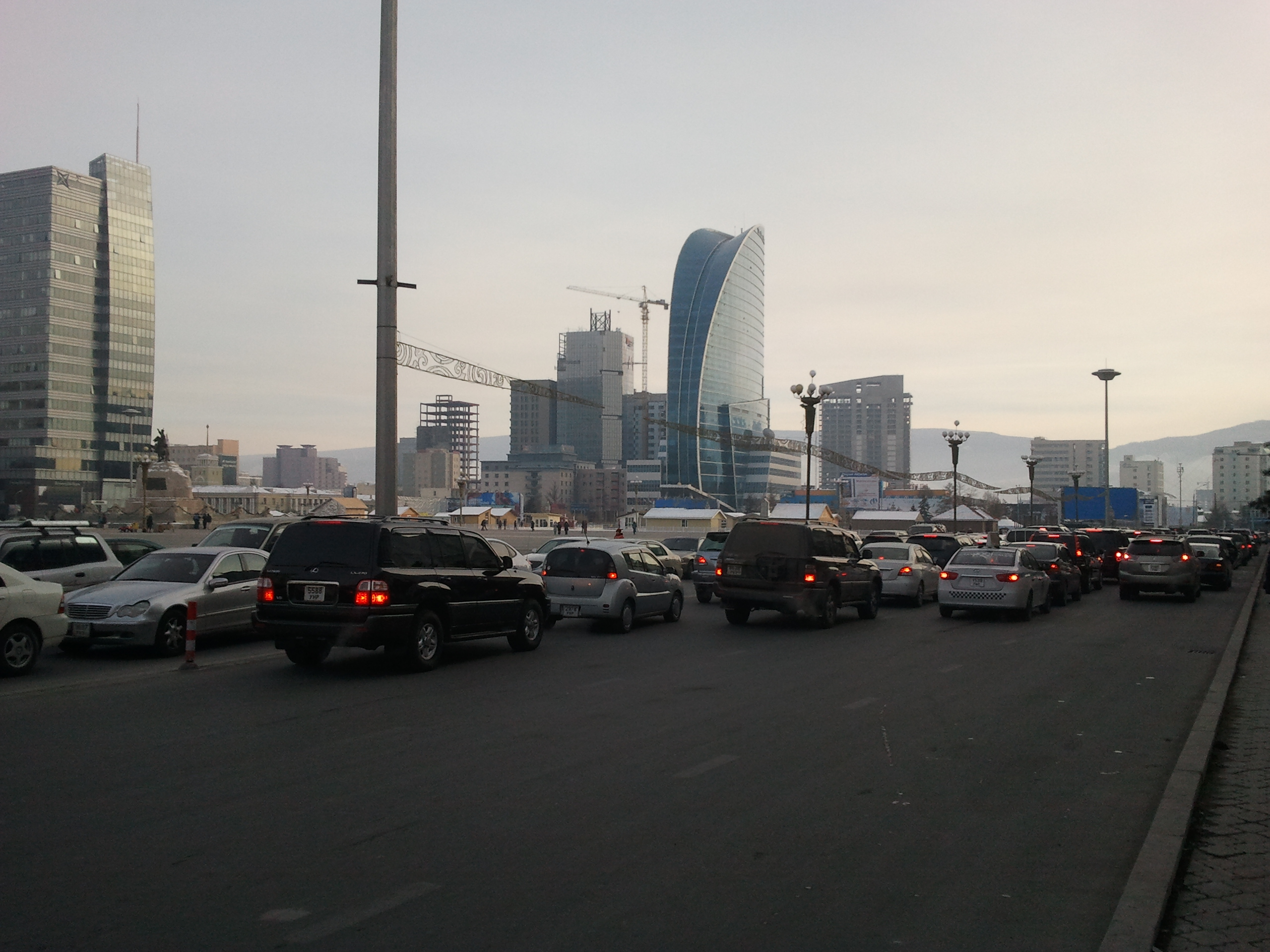 Rising skyline of Ulan Bator. On the south side of Sukhbaatar Square.